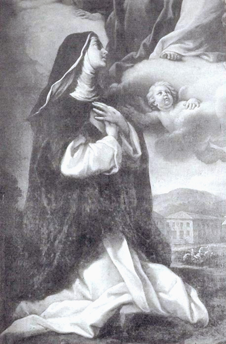 Lucia of Narni, the Blessed Lucy, Patron Saint of Dominican Sisters, in la Cappella della Beata Lucia in Duomo